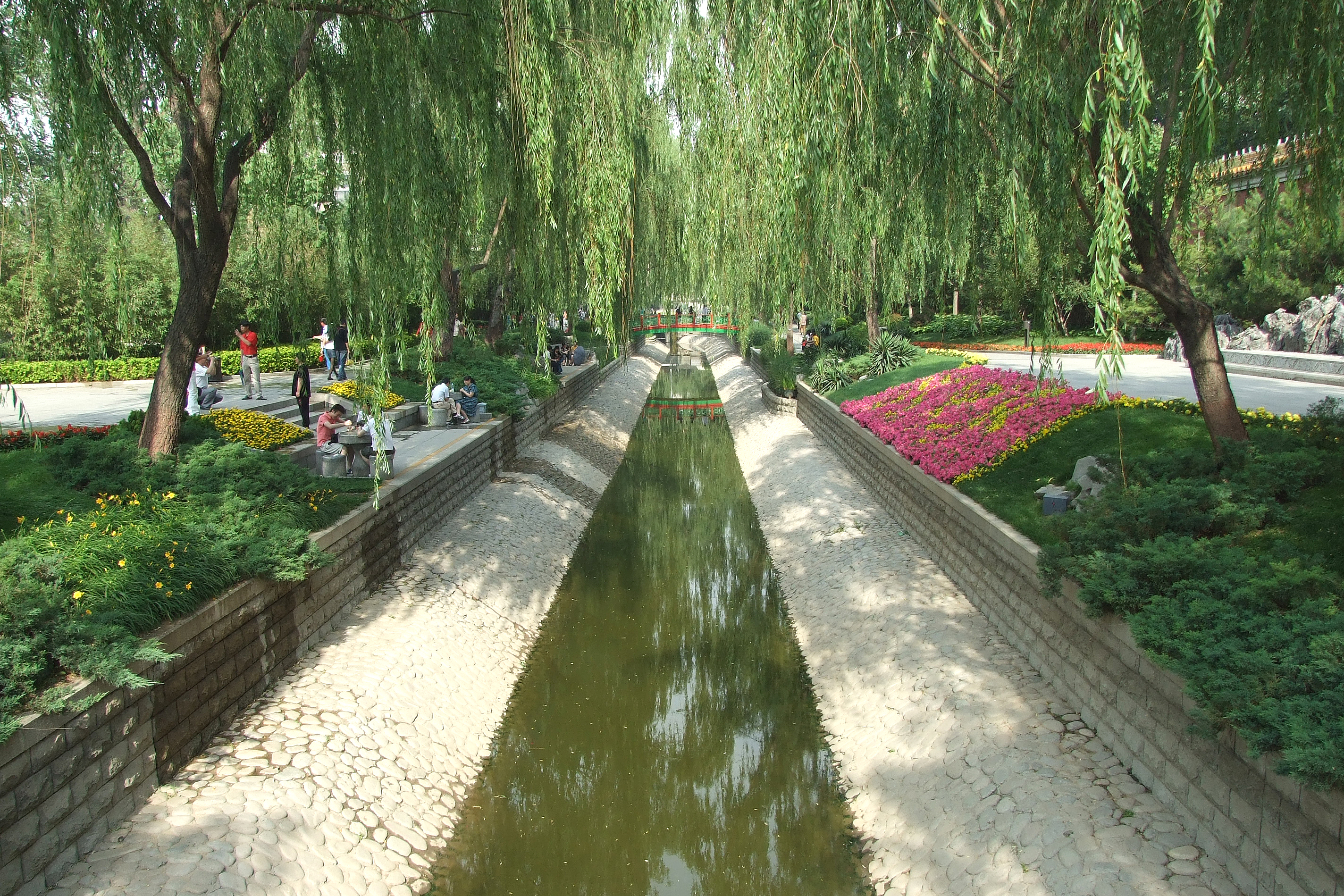 A garden park near the Forbidden City.